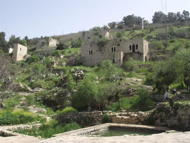 عين لفتا